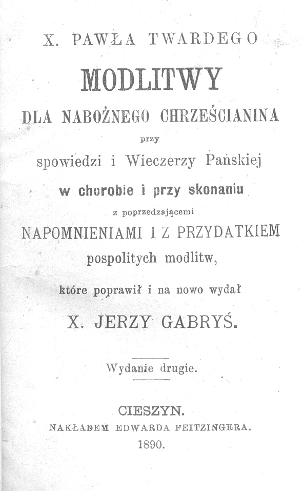 Rev. Paweł Twardy, Modlitwy dla nabożnego chrześcianina (prayer book), ed. by Jerzy Gabryś, frontispiece